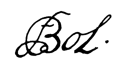 Scan aus Classified Signaturs of Artists This signature is believed to be ineligible for copyright and therefore in the public domain because it falls below the required level of originality for copyright protection both in the United States and in the source country (if different). In this case, the source country (e.g. the country of nationality of the signatory) is believed to be Netherlands. Note that this tag cannot be used on all signatures, as not all signatures are copyright-free. See Commons:When to use the PD-signature tag for an explanation of when the tag may be used.